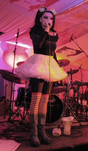 Nina Hagen in concert in Aalborg, Denmark in 2003